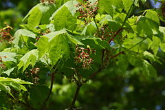 The flowers of Korean maple (Acer pseudosieboldianum), Botanical Garden of Tallinn, Estonia